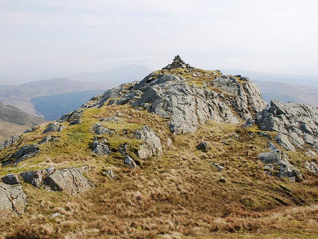 Cruach Mhor in Scotland (not Ireland). The summit cairn on top of this pleasant, rocky hill. Views good but would have been stunning with more clarity.